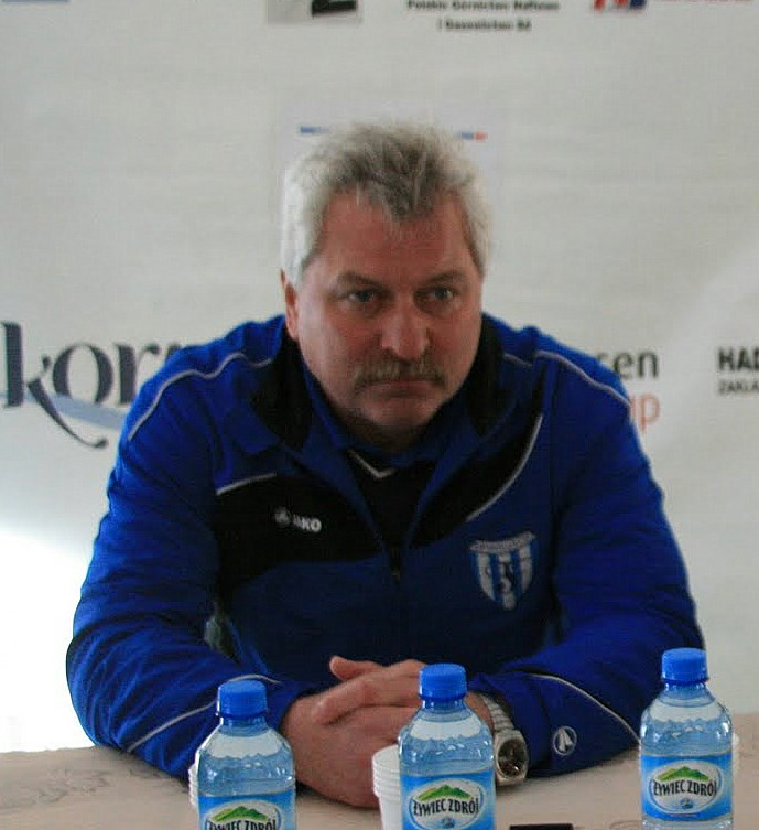 Czech football player and coach Petr Němec